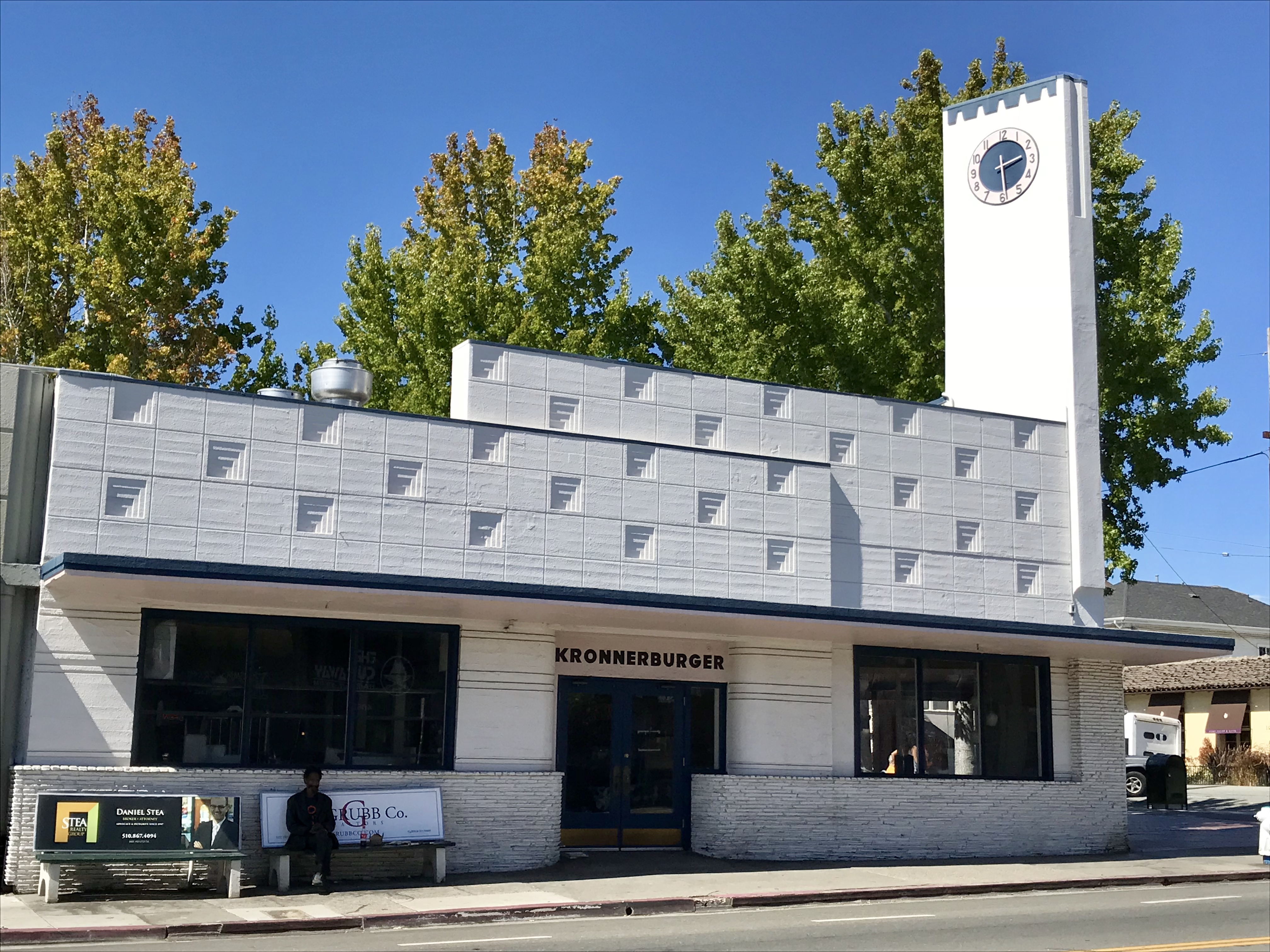 4063 Piedmont Ave, Oakland, CA 94611. This building was a train station in the Key System from 1939 to 1958.